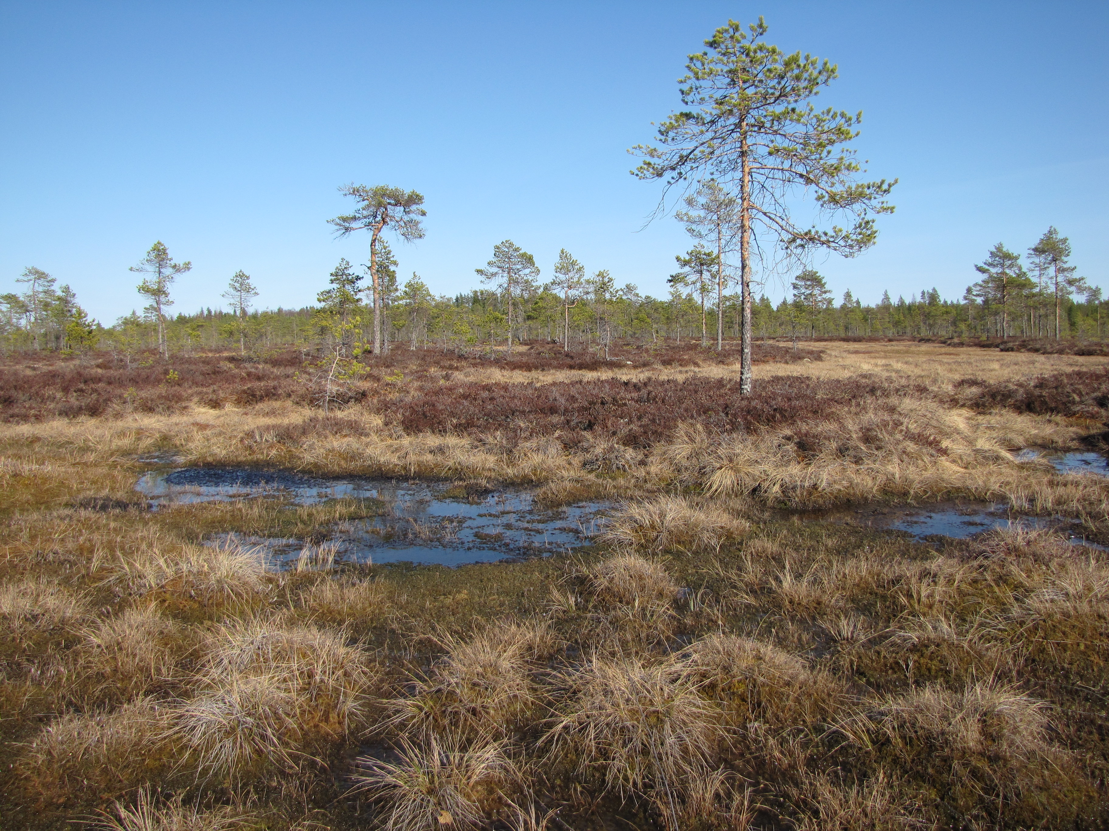 Part of the Kauhaneva mire, one of the biggest mires in the southern half of Finland and a very significant nesting site for many bird species (especially cranes), is protected in the Kauhaneva–Pohjankangas National Park in the municipality of Kauhajoki, Southern Ostrobotnia.